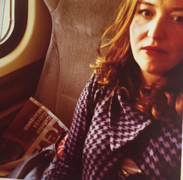 An image of Kathryn Williams taken in 2016